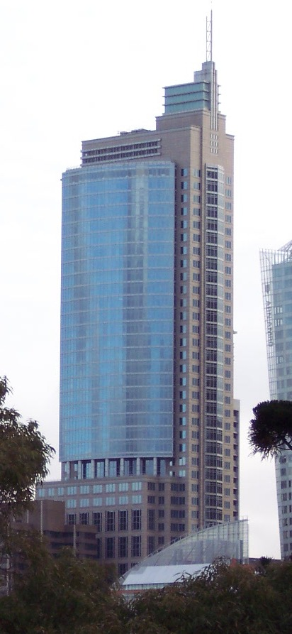 Chifley Tower